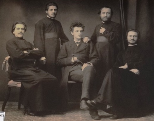 Leadership committee of the Arboroasa society, in Czernowitz (Cernăuți), Austria-Hungary